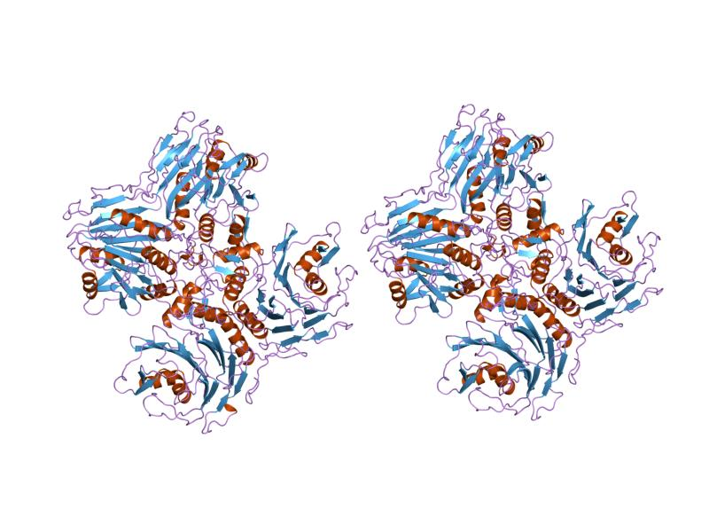 Cartoon representation of the molecular structure of protein registered with 3pva code.